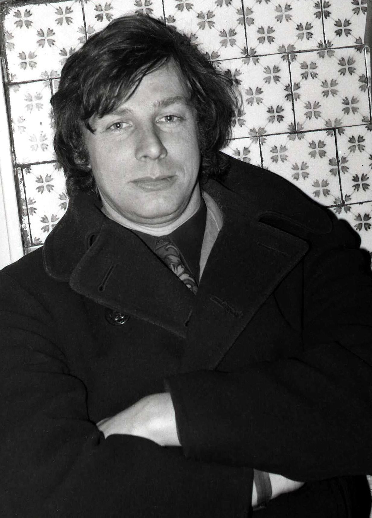 Portrait of Patrick Garland inside the stage door of Apollo Theatre London during production of 'Forty Year On'